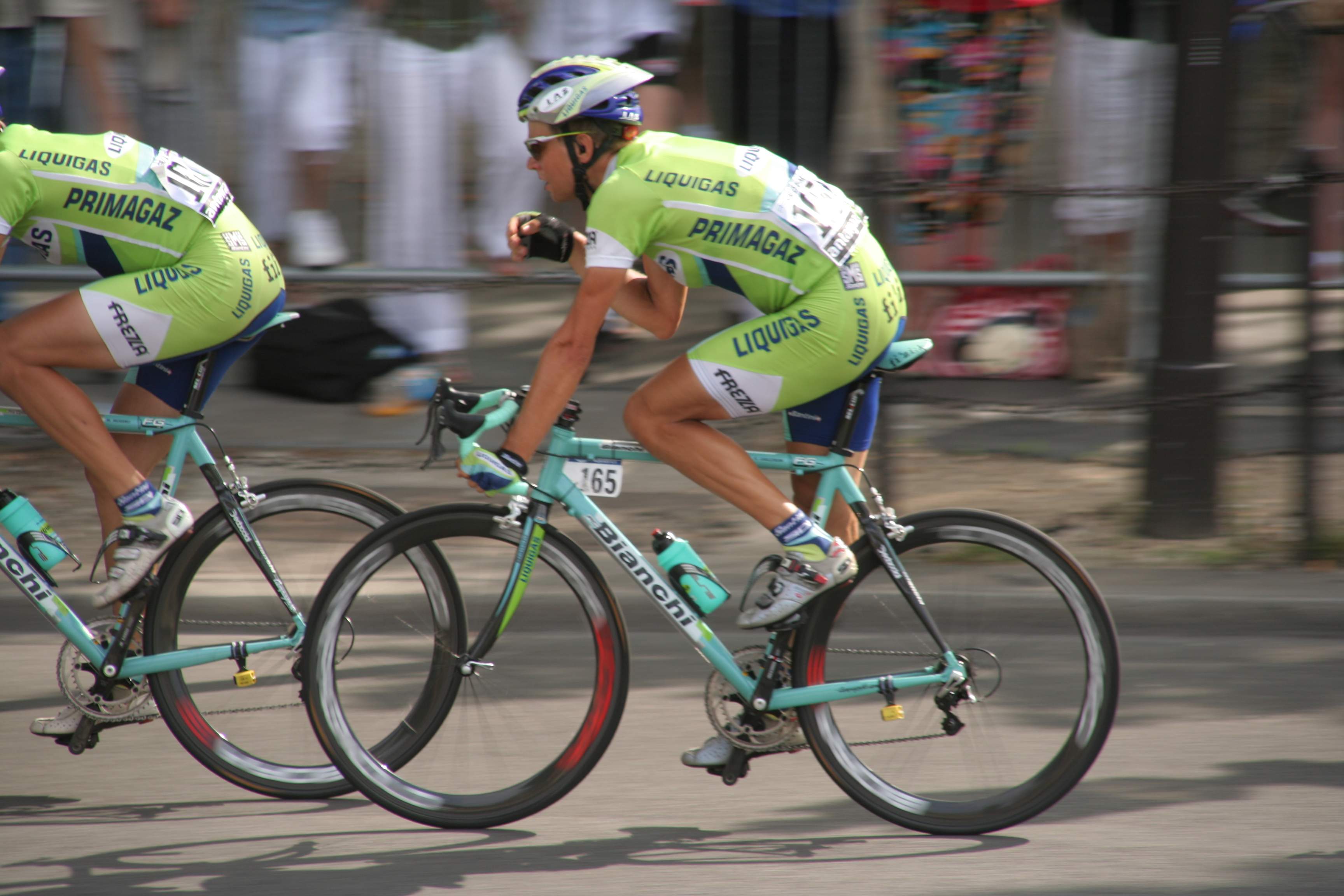 Kjell Carlstrom during the Tour de France 2006Kjell Carlstrom (FIN)